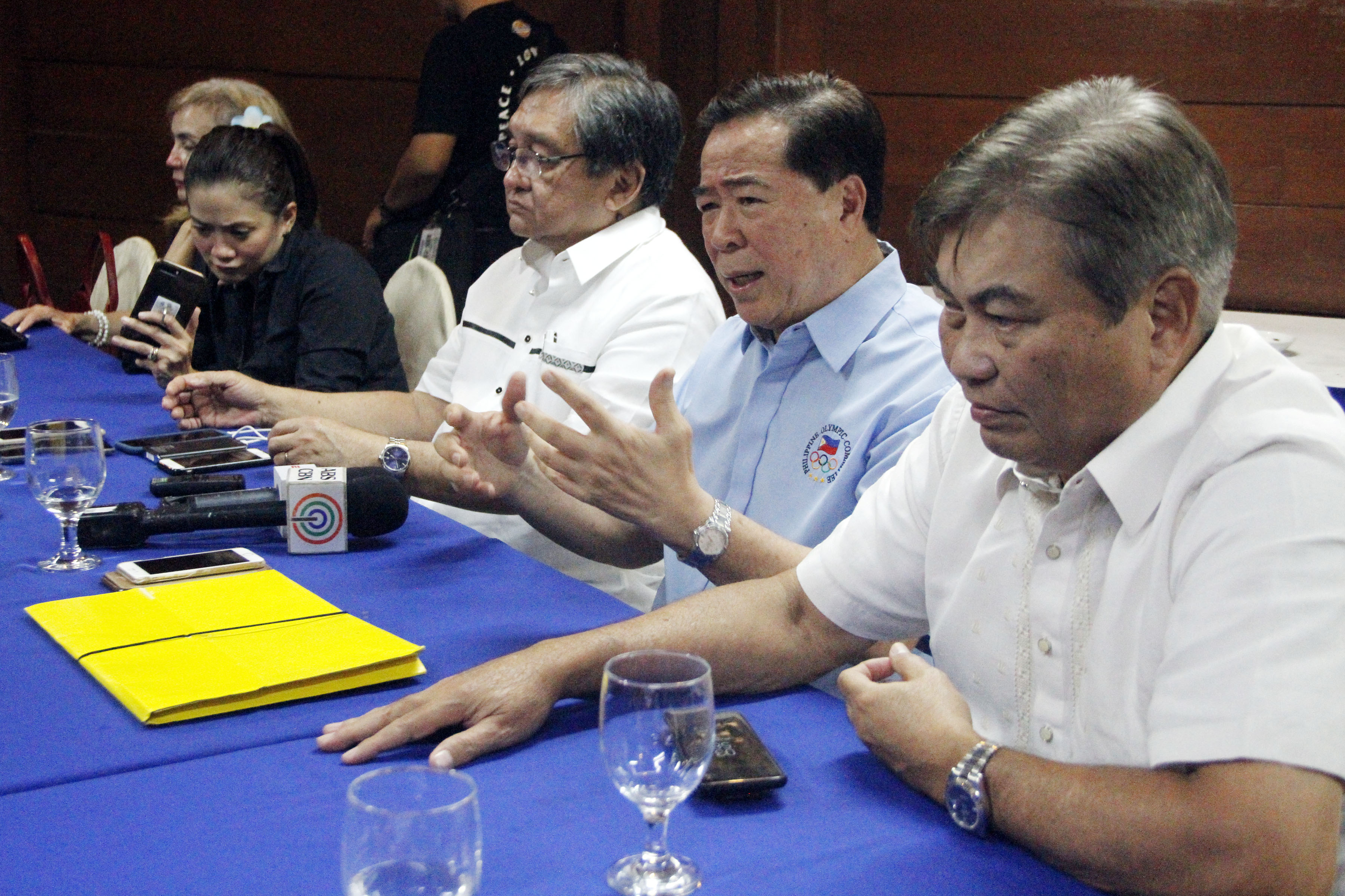 Philippine Weightlifting Association President Monico Puentevella (2nd from right) joins other national sports association leaders in expressing support for the candidacy of boxing association president Ricky Vargas in the Philippine Olympic Committee election during a press conference at the Valle Verde Country Club in Pasig City on Wednesday (Feb. 21, 2018). (PNA photo by Jess Escaros Jr.)